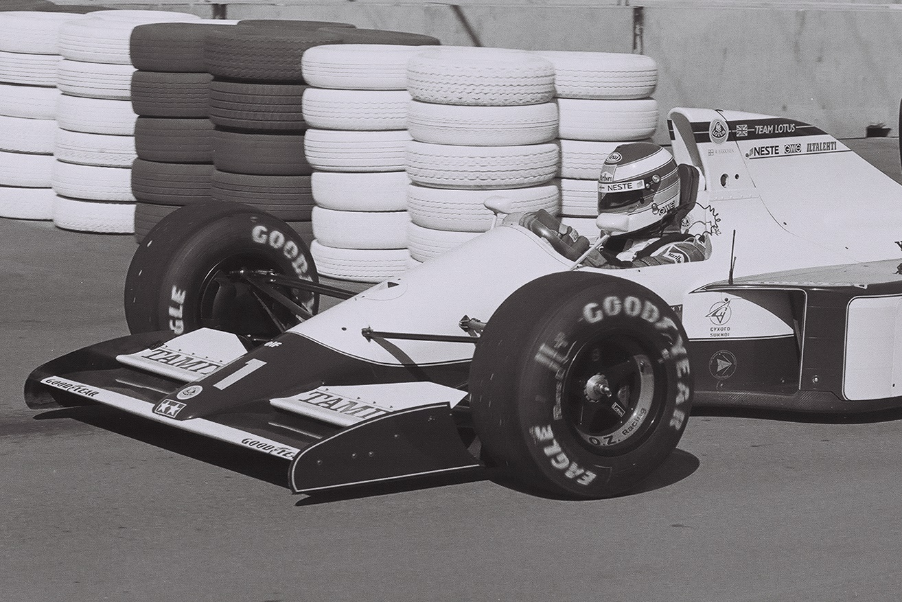 Mika Häkkinen driving a Lotus-Judd 102B at Saturday's qualifying of the 1991 United States Grand Prix in Phoenix, Arizona, United States. This grand prix was Häkkinen's debut in Formula One.